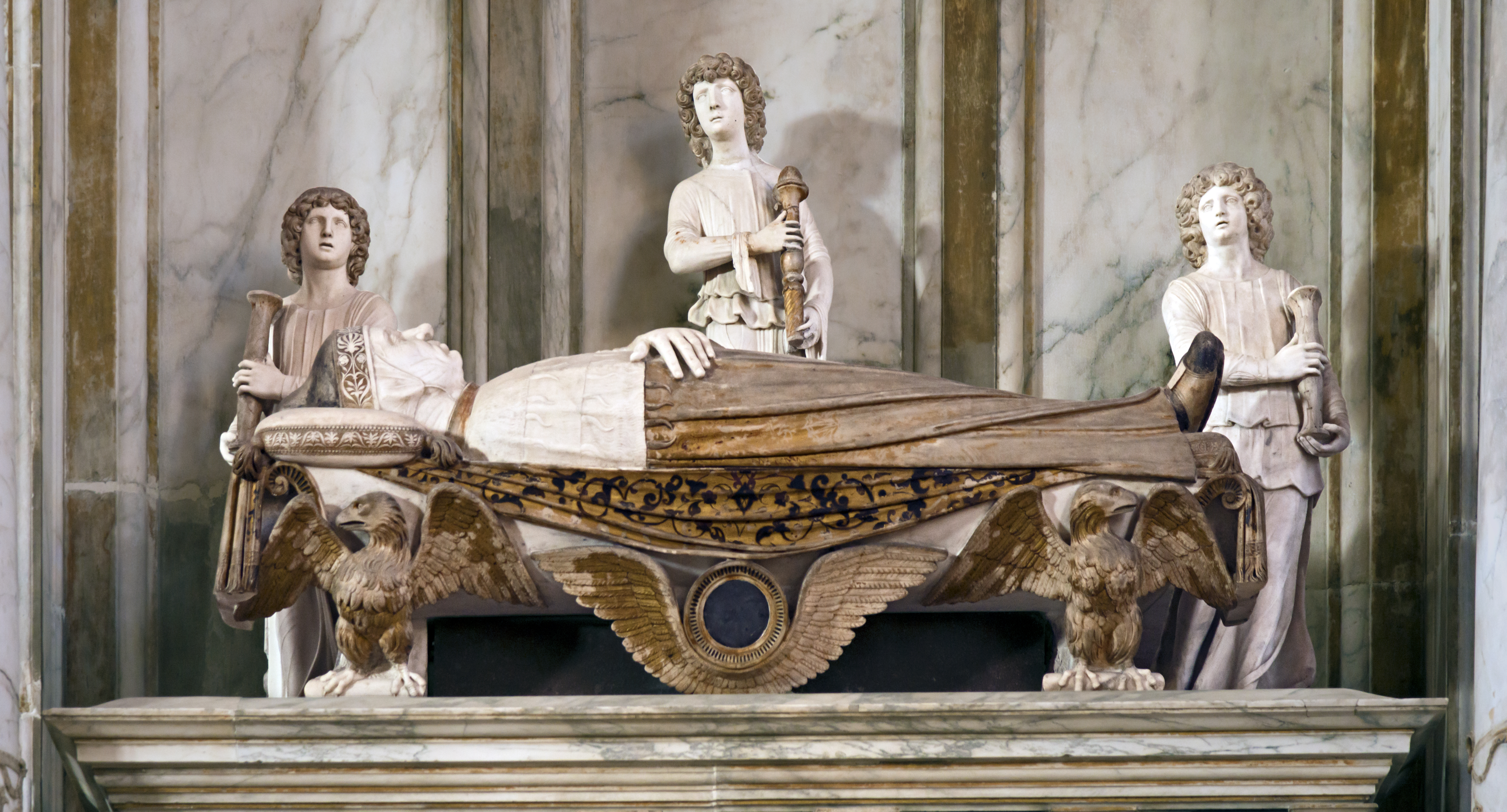 Choir of Santi Giovanni e Paolo in Venice. Gisant of the Doge Andrea Vendramin watched over by three genes that govern unlit torches by Tullio Lombardo.